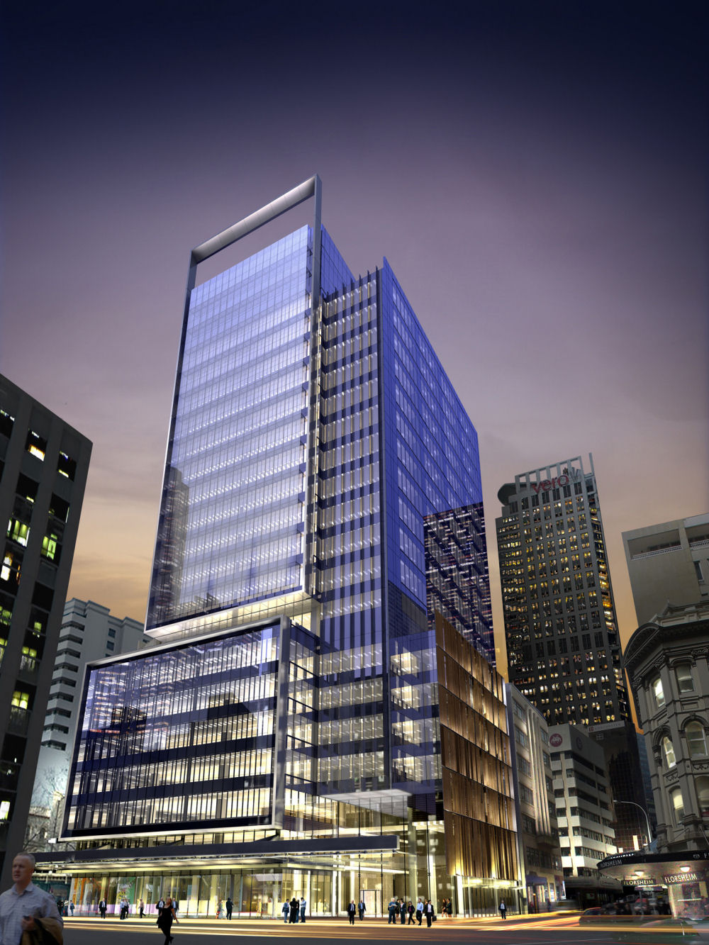 Deloitte professional services offices located at 80 Queen Street, Auckland, New Zealand.